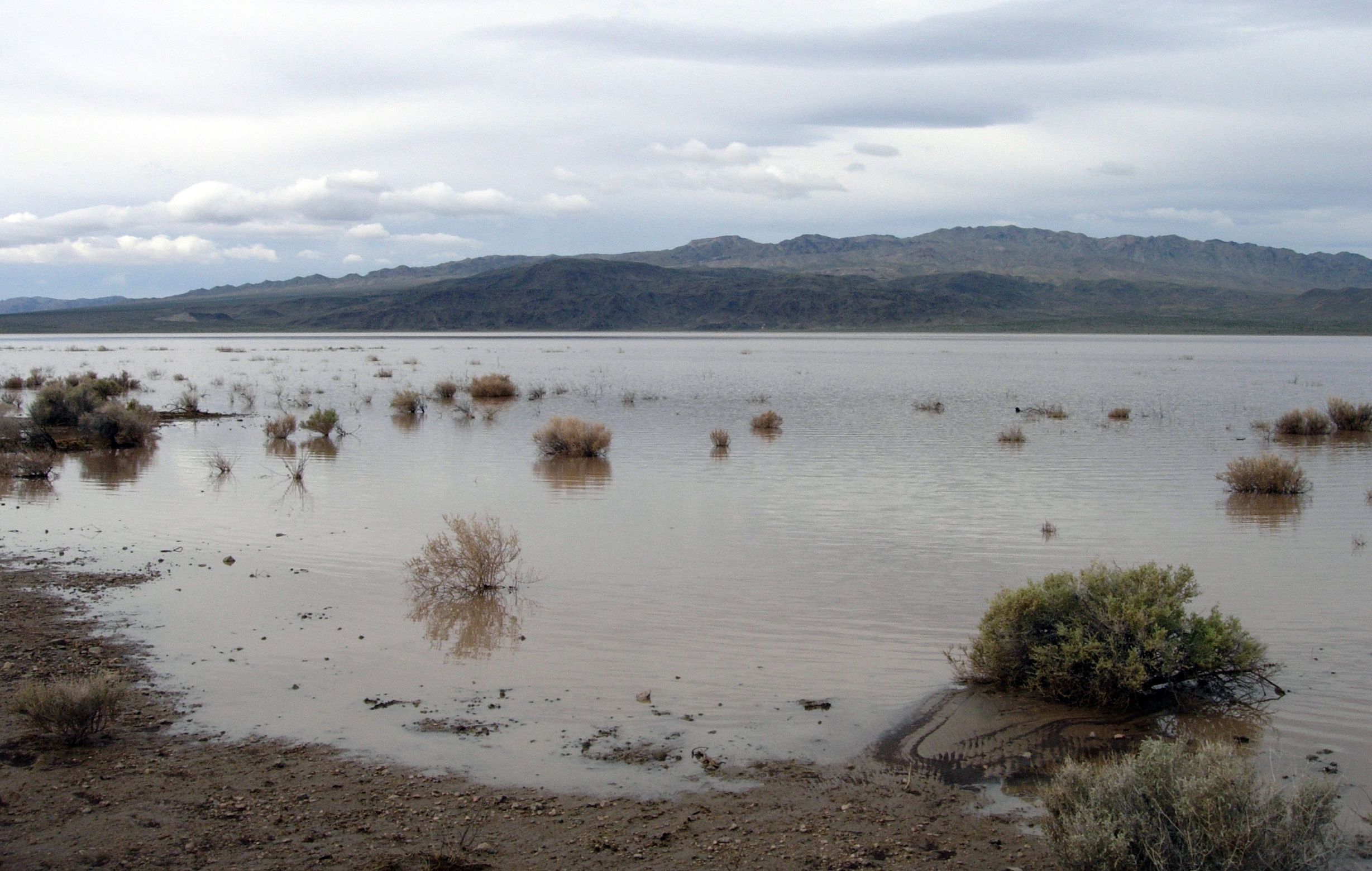 Silver Dry Lake, north of Baker, California, after a flood in March 2005.